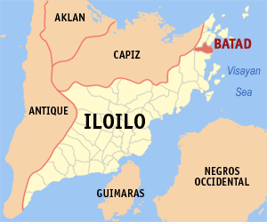 Map of Iloilo showing the location of Batad